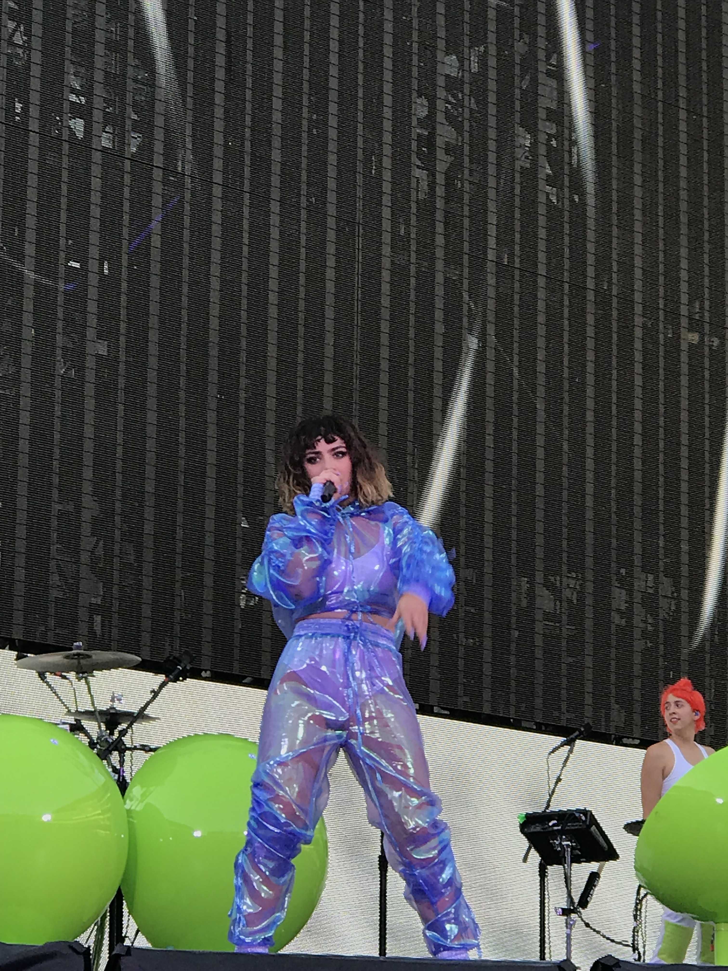 Charli XCX performing at Lincoln Financial Field in July 2018